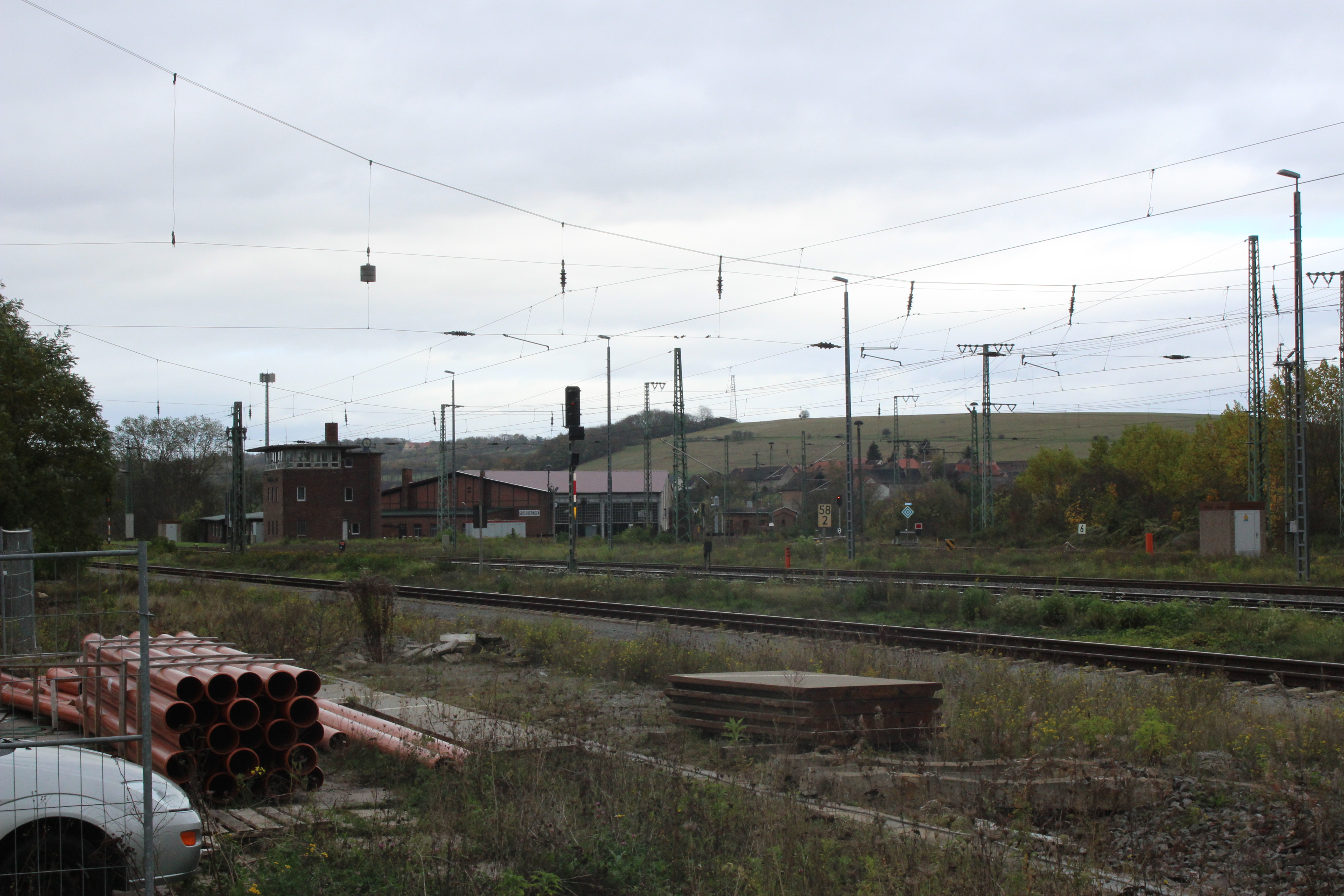 train station Großheringen, rails